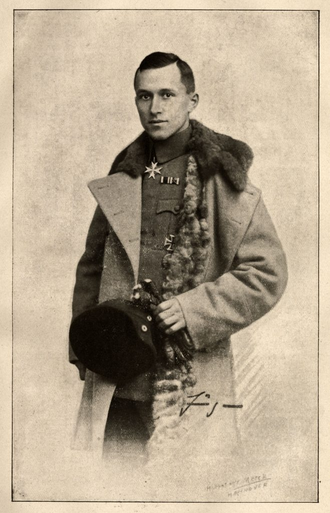 Ernst Jünger, vers 1920, photographe inconnu.